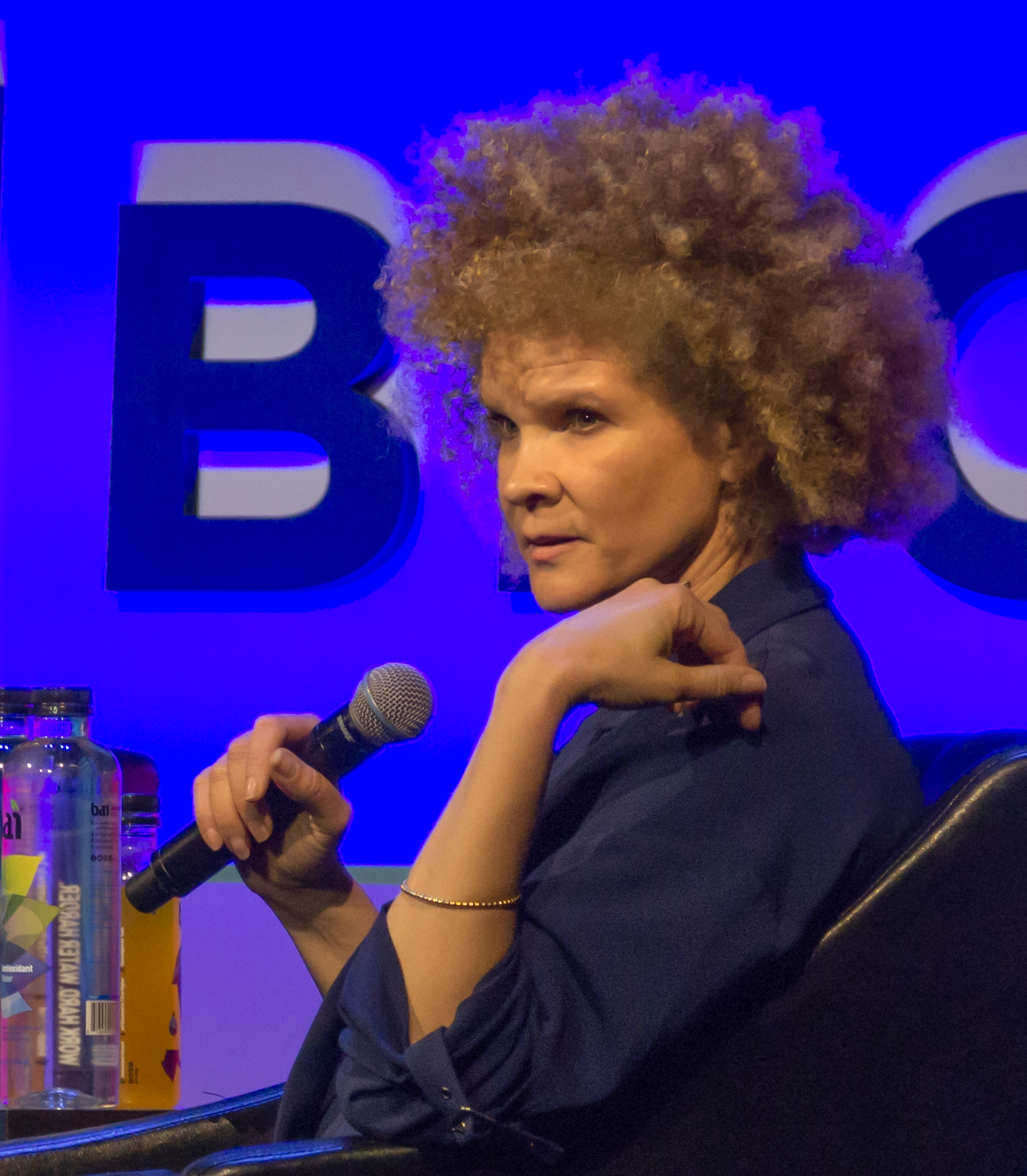 Time's Up event at the 2018 Tribeca Film Festival (Tribeca Talks: Time's Up). A series of talks/performances about Time's Up/sexual harassment. Michaela Angela Davis during the Reclaiming the Narrative panel.